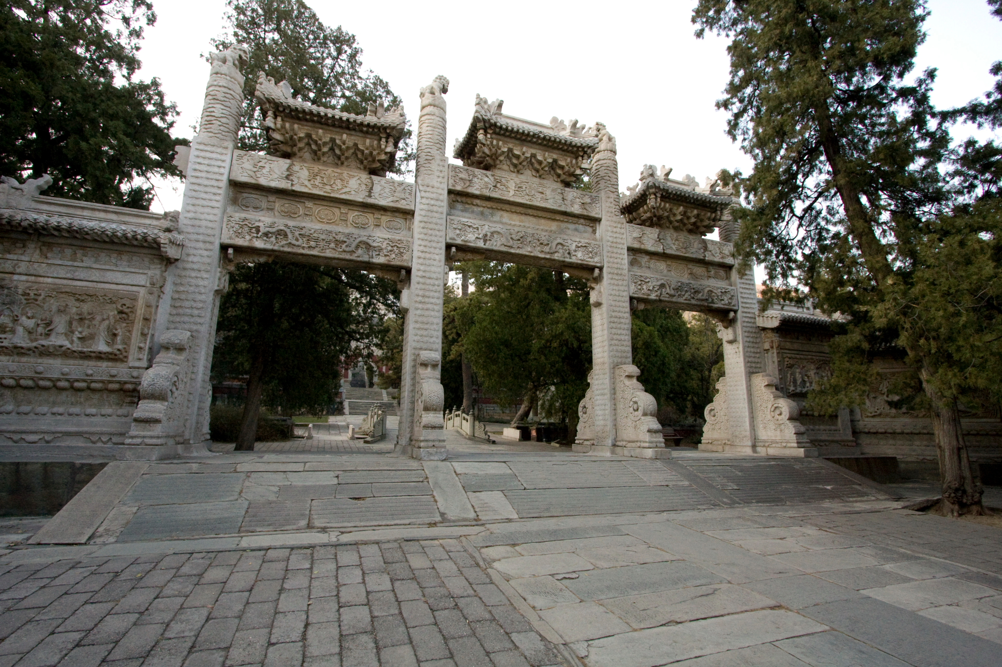 A stone gate at the Temple of Azure Clouds in Beijing.